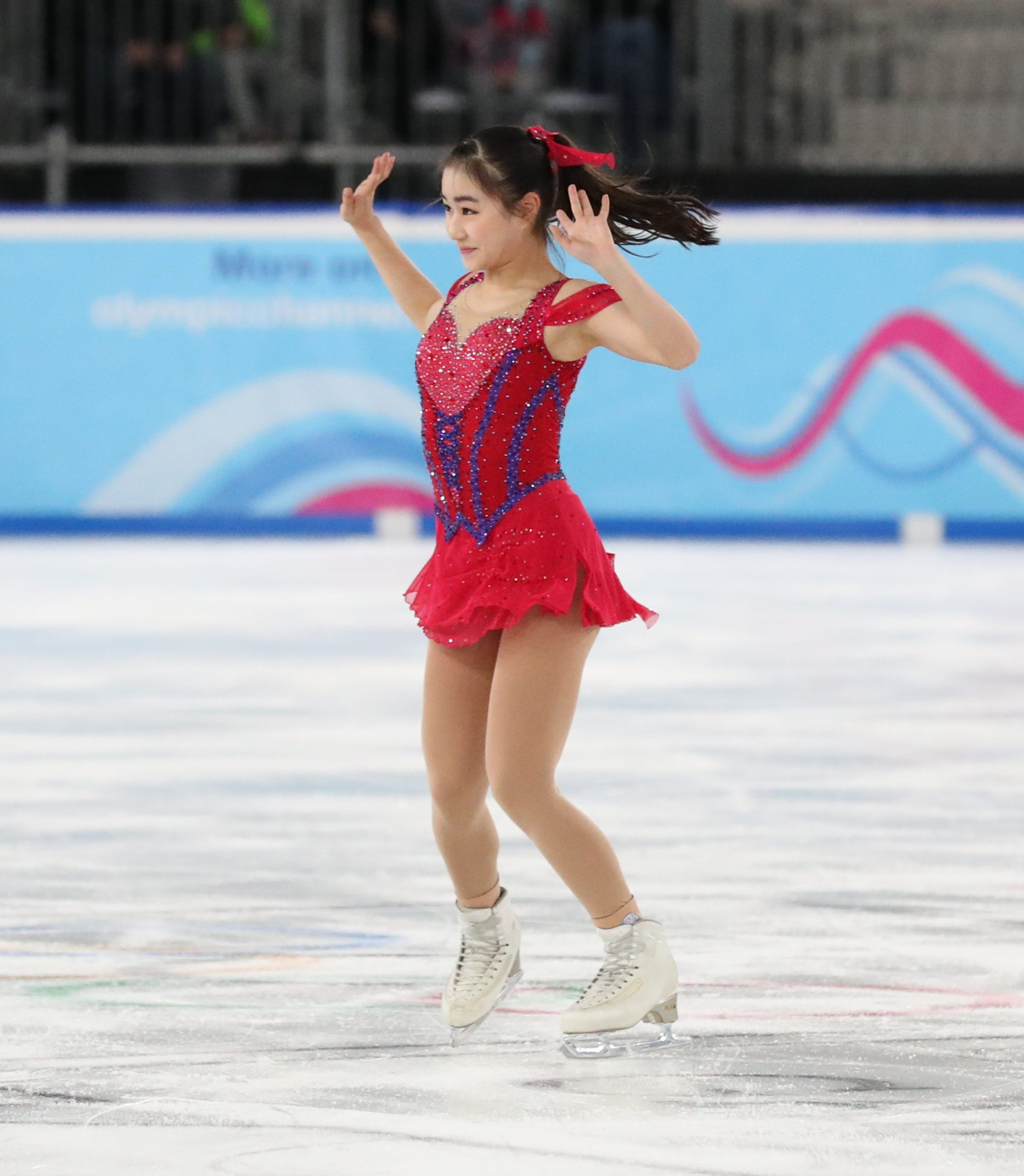 Women Single Figure Skating Short Program at the 2020 Winter Youth Olympics in Lausanne